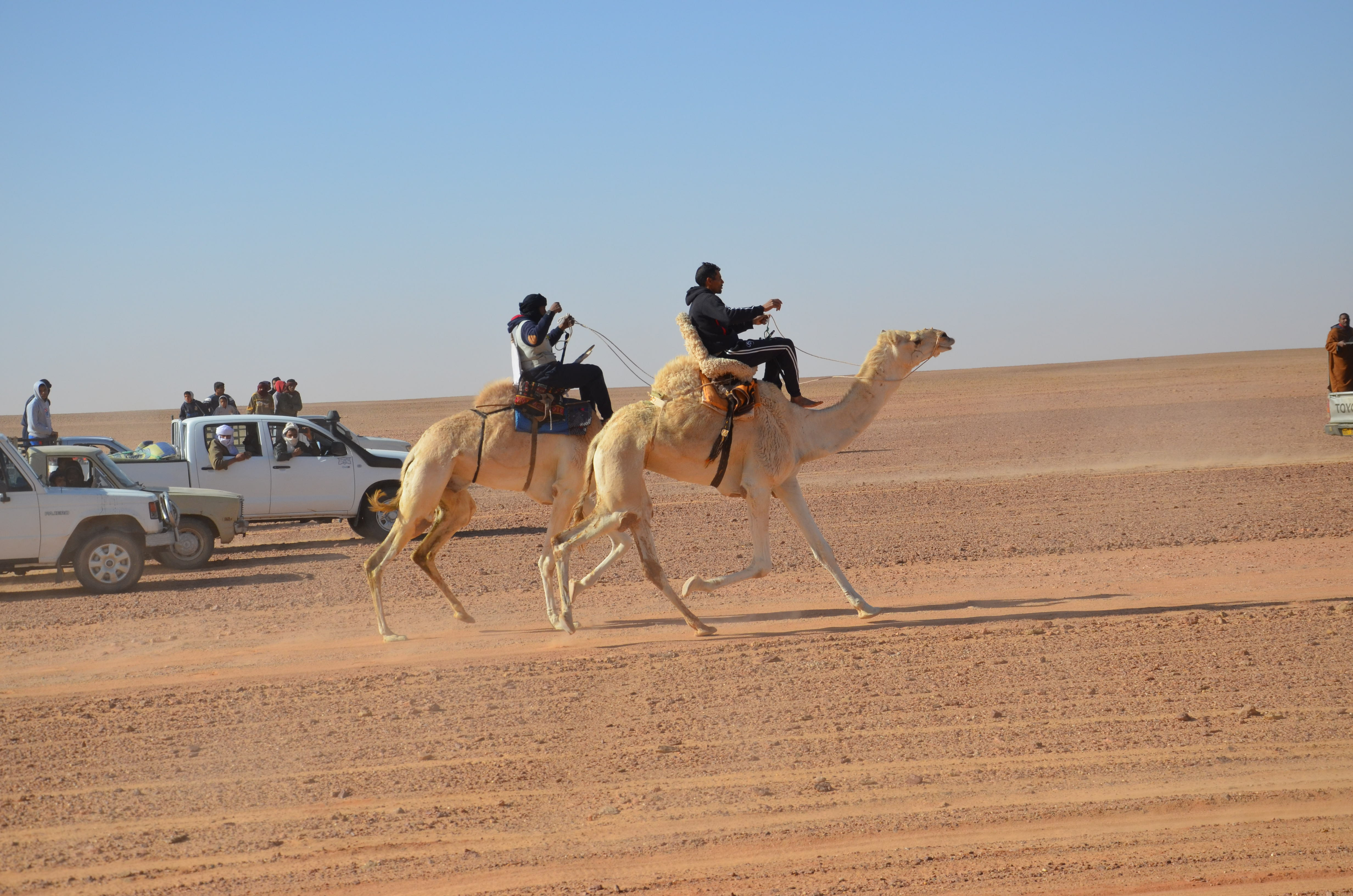 This is an image with the theme "Play" from: Algeria